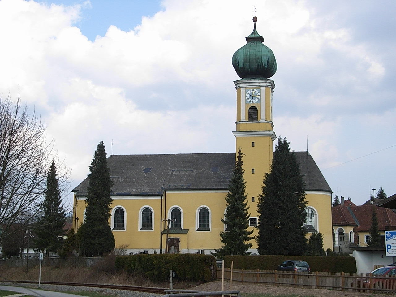 Frauenau, Parish Church of the Assumption from south.